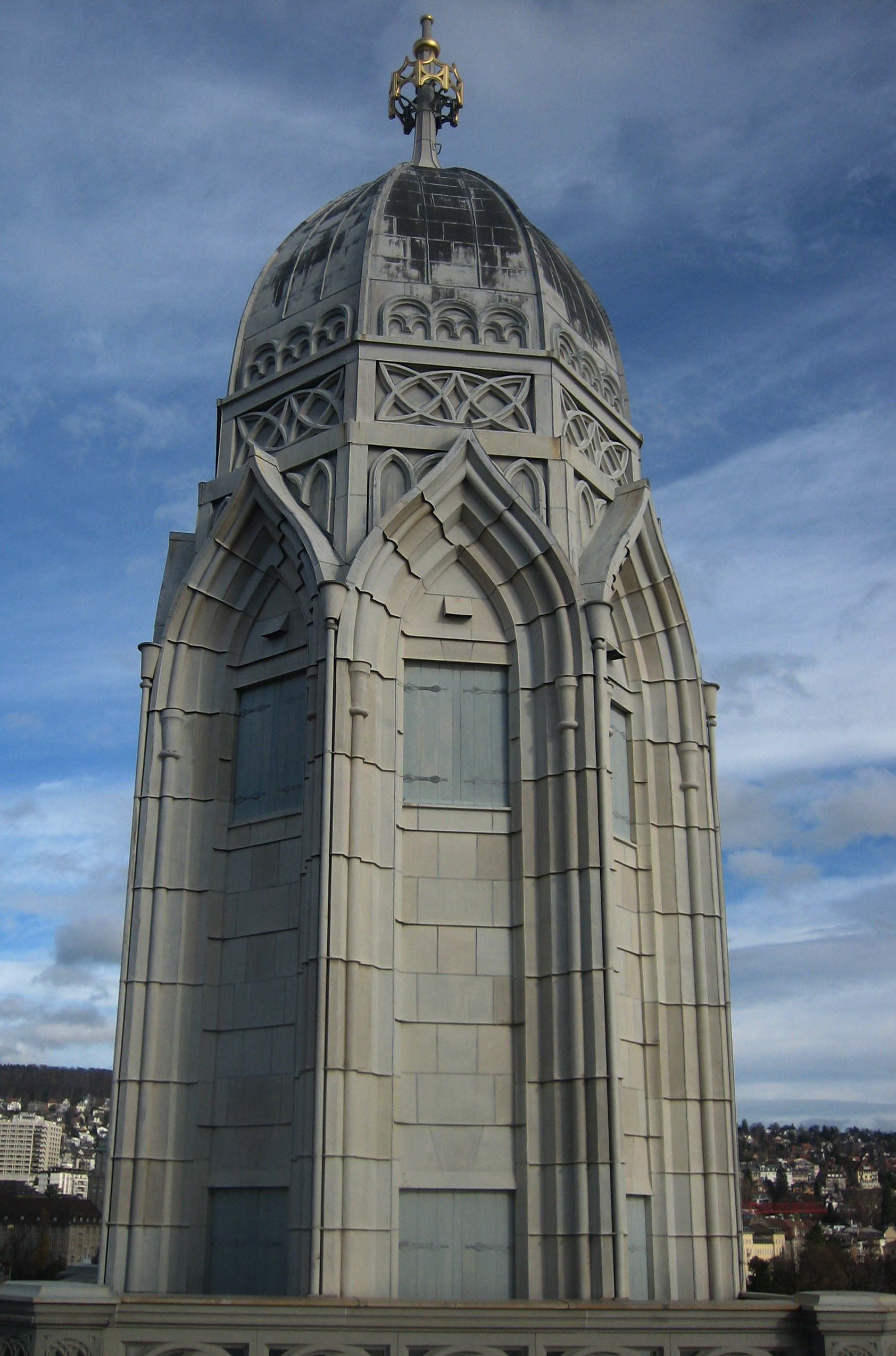 Tower Grossmünster, Zürich